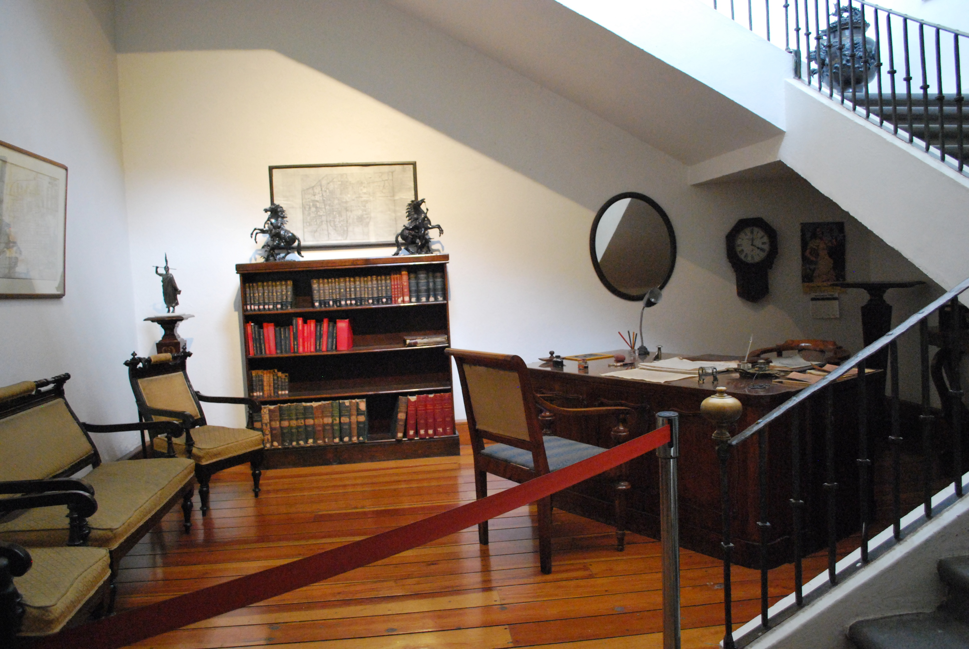 Study of painter Joaquin Clausell in the Museum of the City of Mexico in the historic center of Mexico City